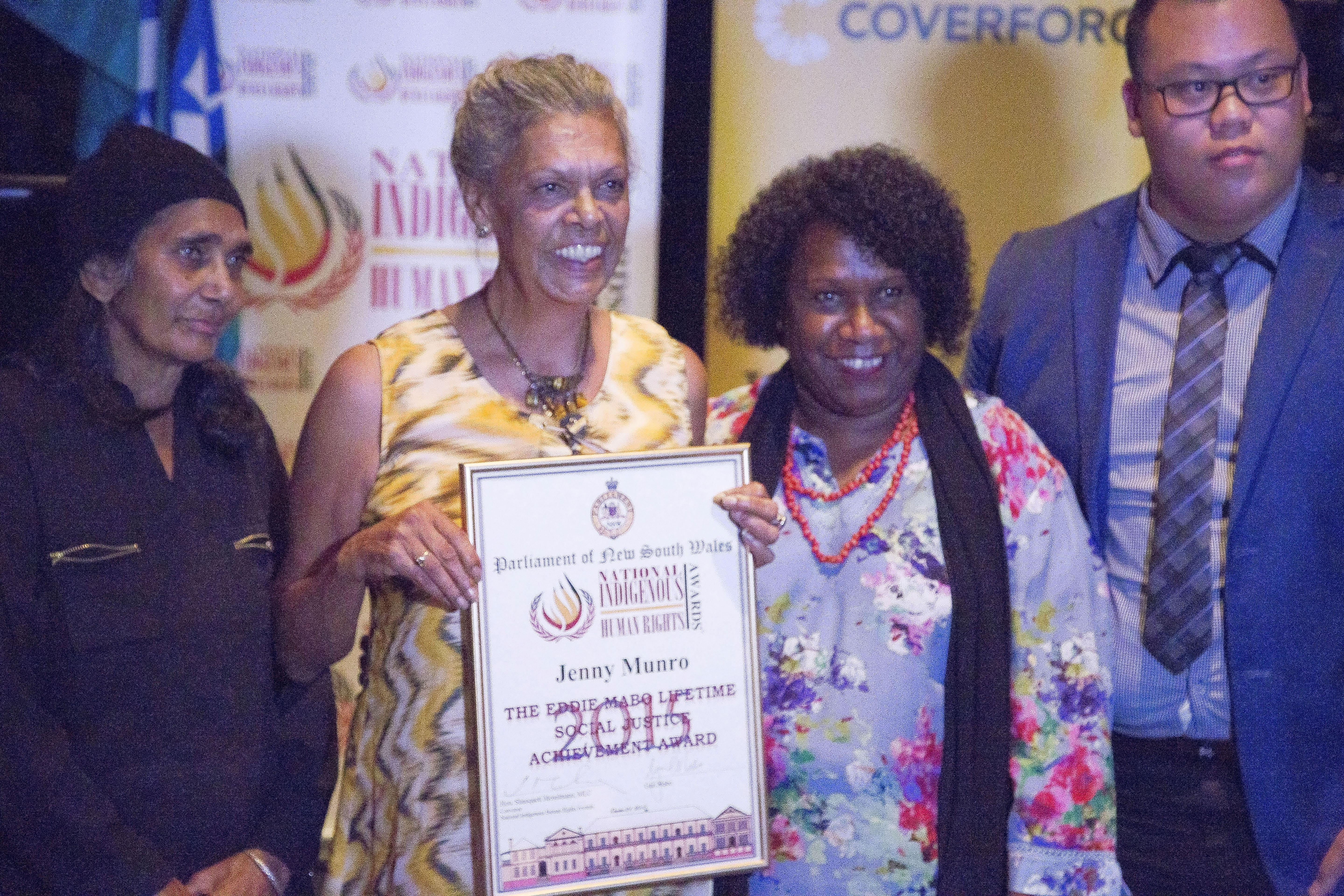 Jenny Munro accepting an award at the National Indigenous Human Rights Awards, Sydney, 2015.